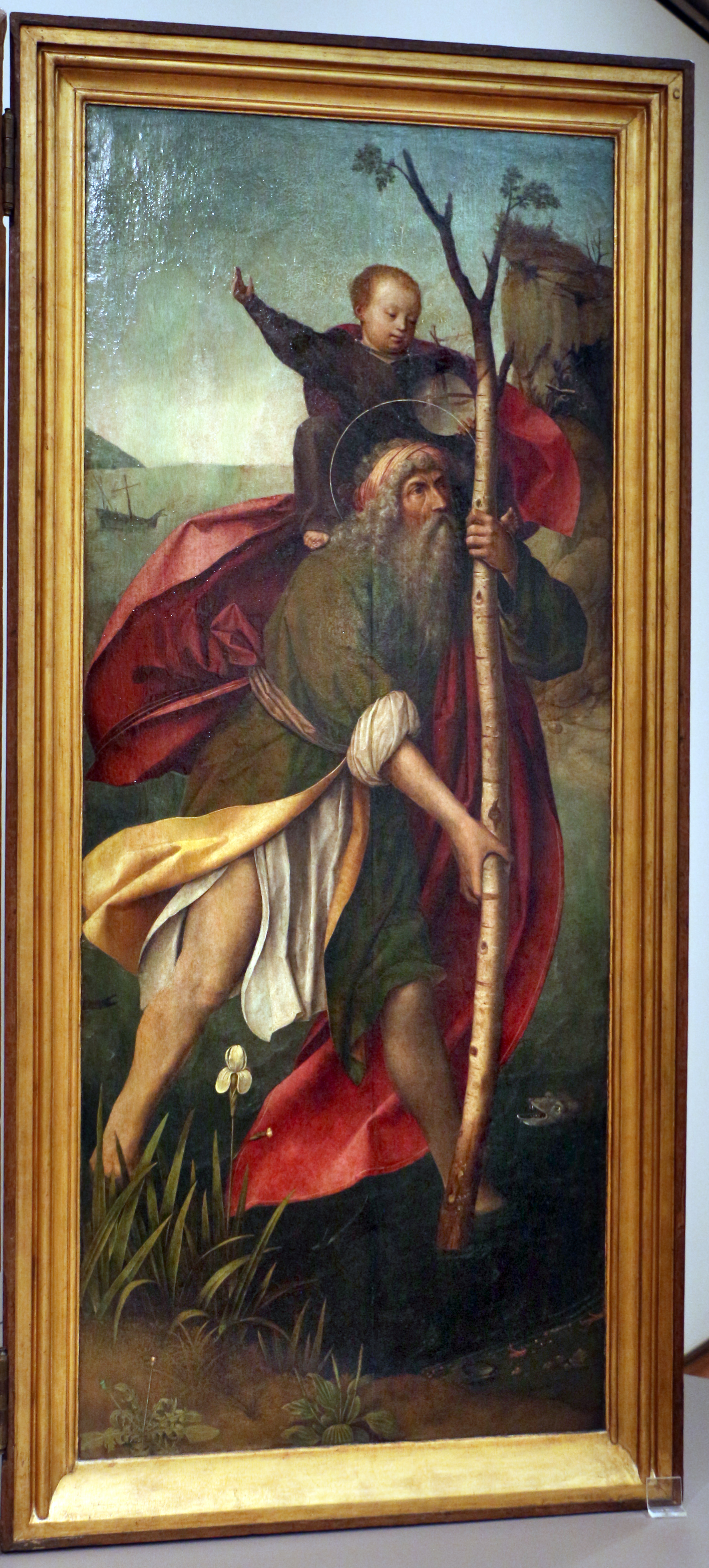 Flemish paintings in the Museu Nacional de Arte Antiga